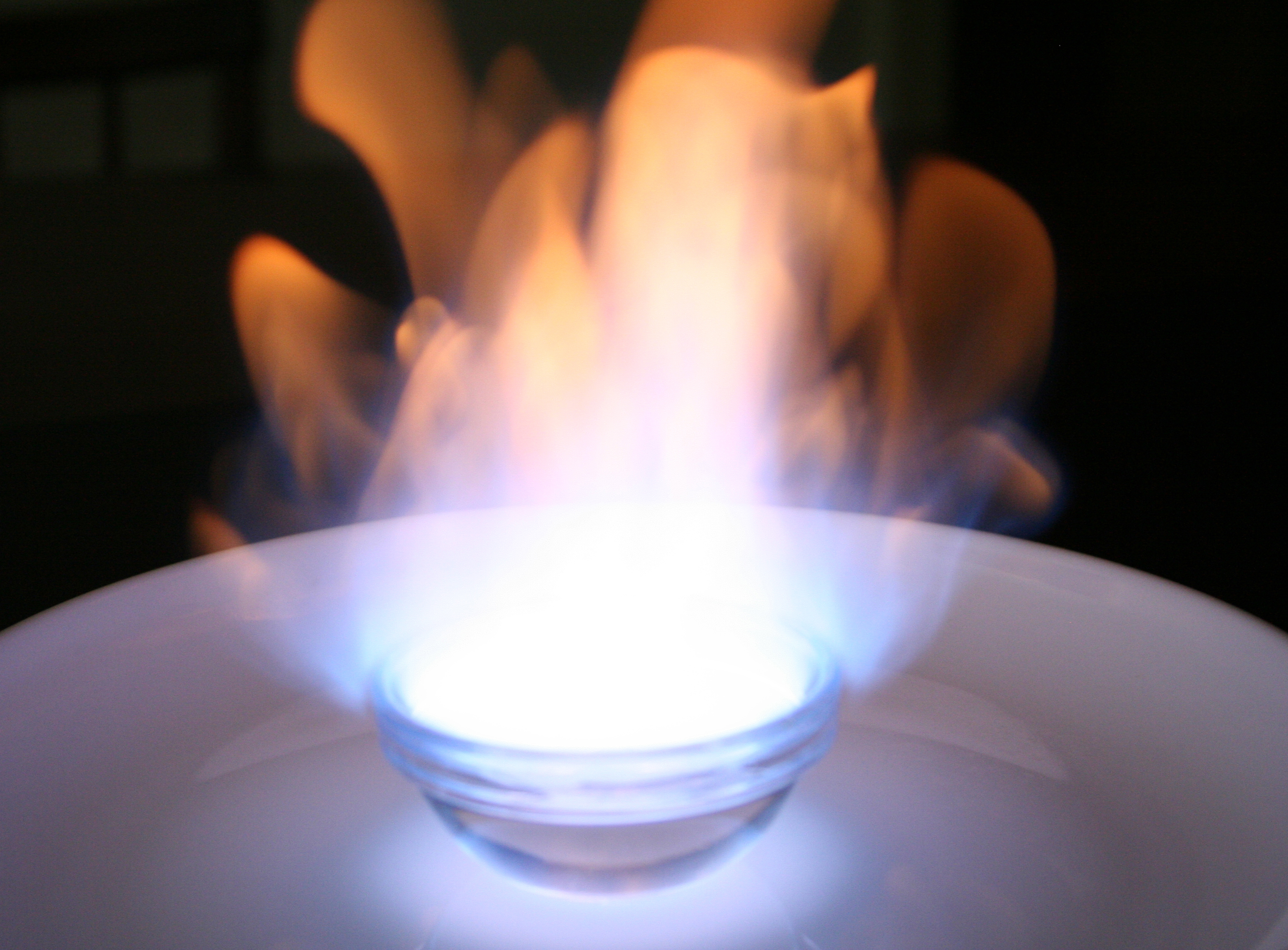 Sambuca (an anis-based liquor) being flamed.